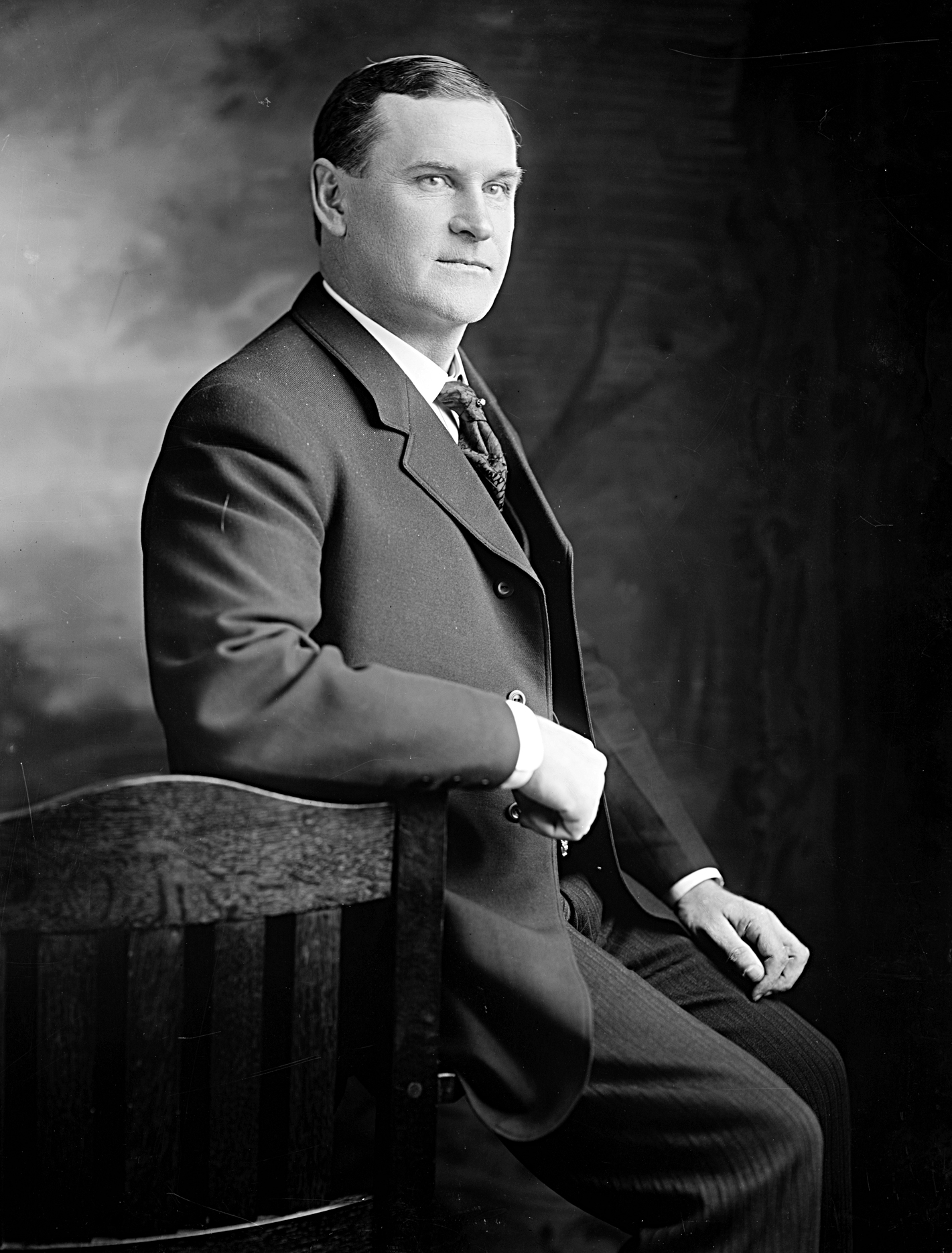 Charles H. Weisse, US Representative from Wisconsin